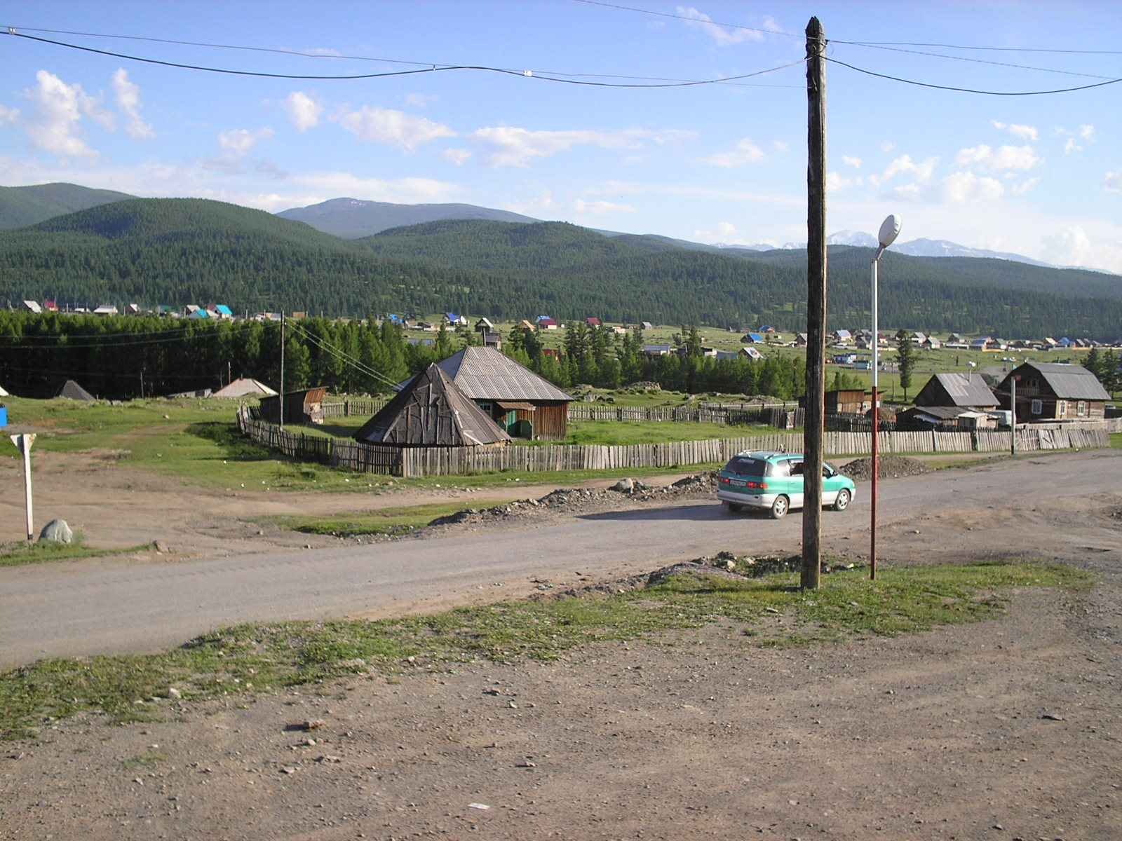 Ulagan settlement in the Altai Republic